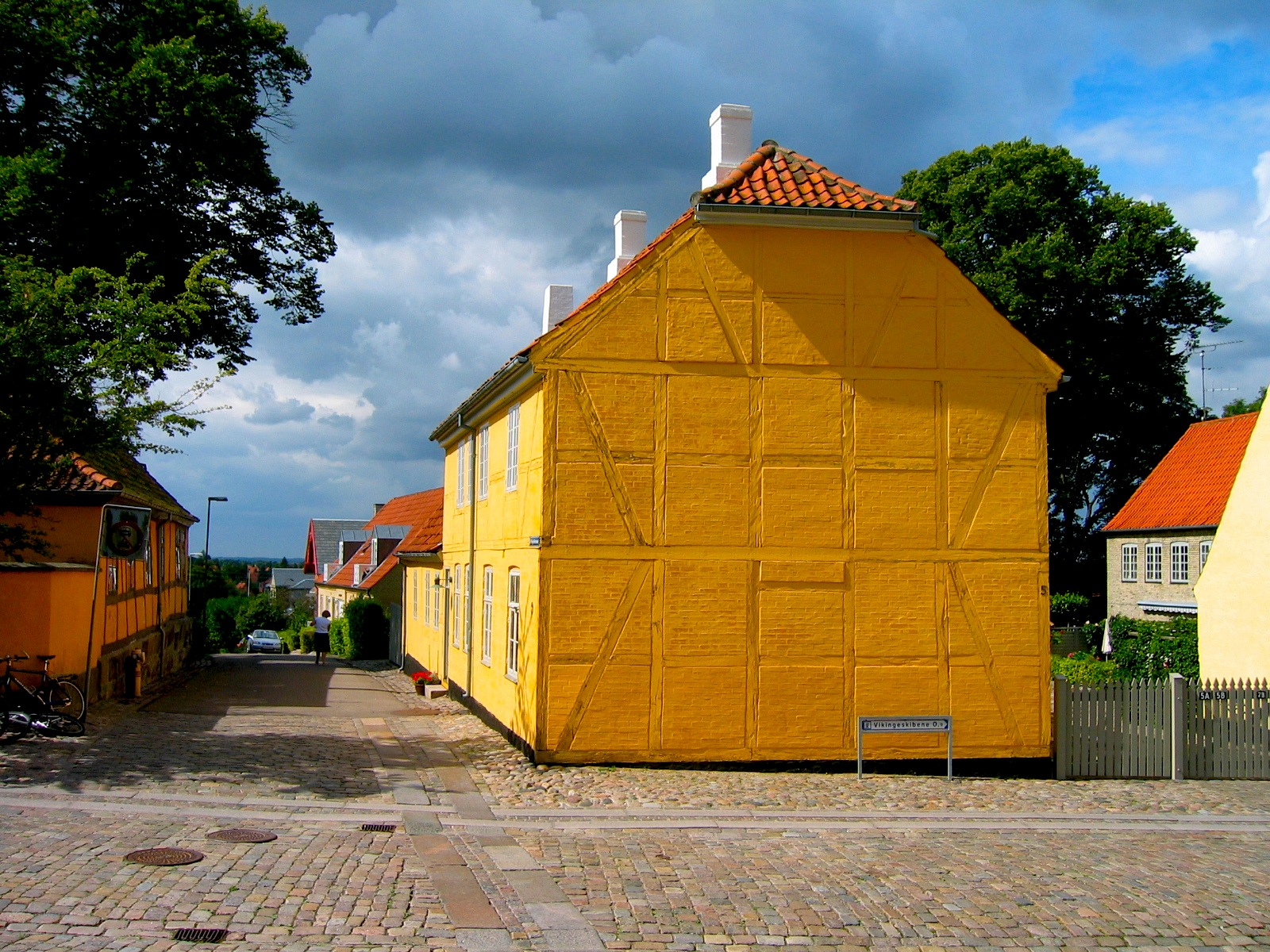 Roskilde, a detail of the old town